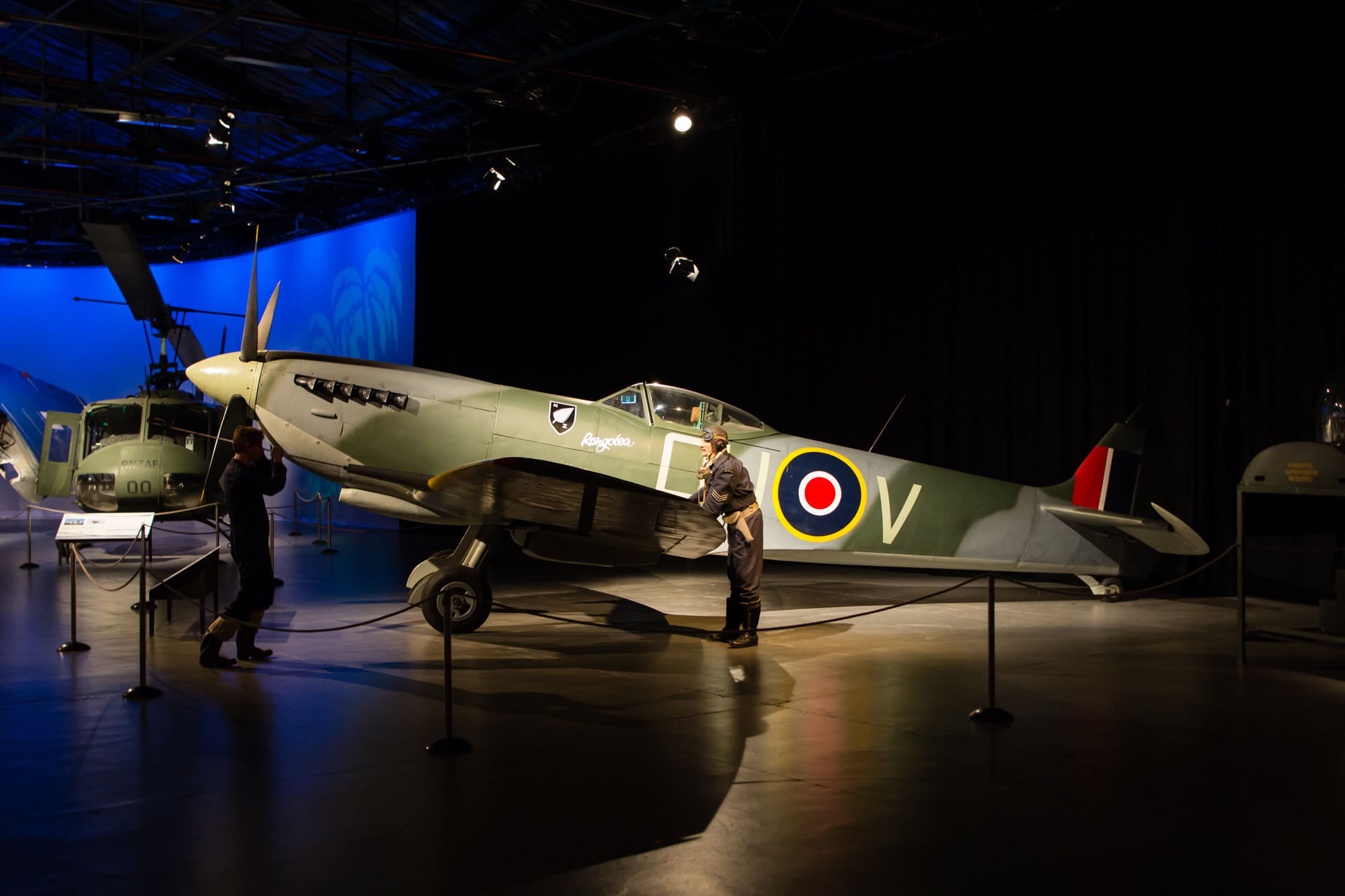 Supermarine Spitfire LF Mk.XVIe TE288 at the Air Force Museum of New Zealand in Christchurch